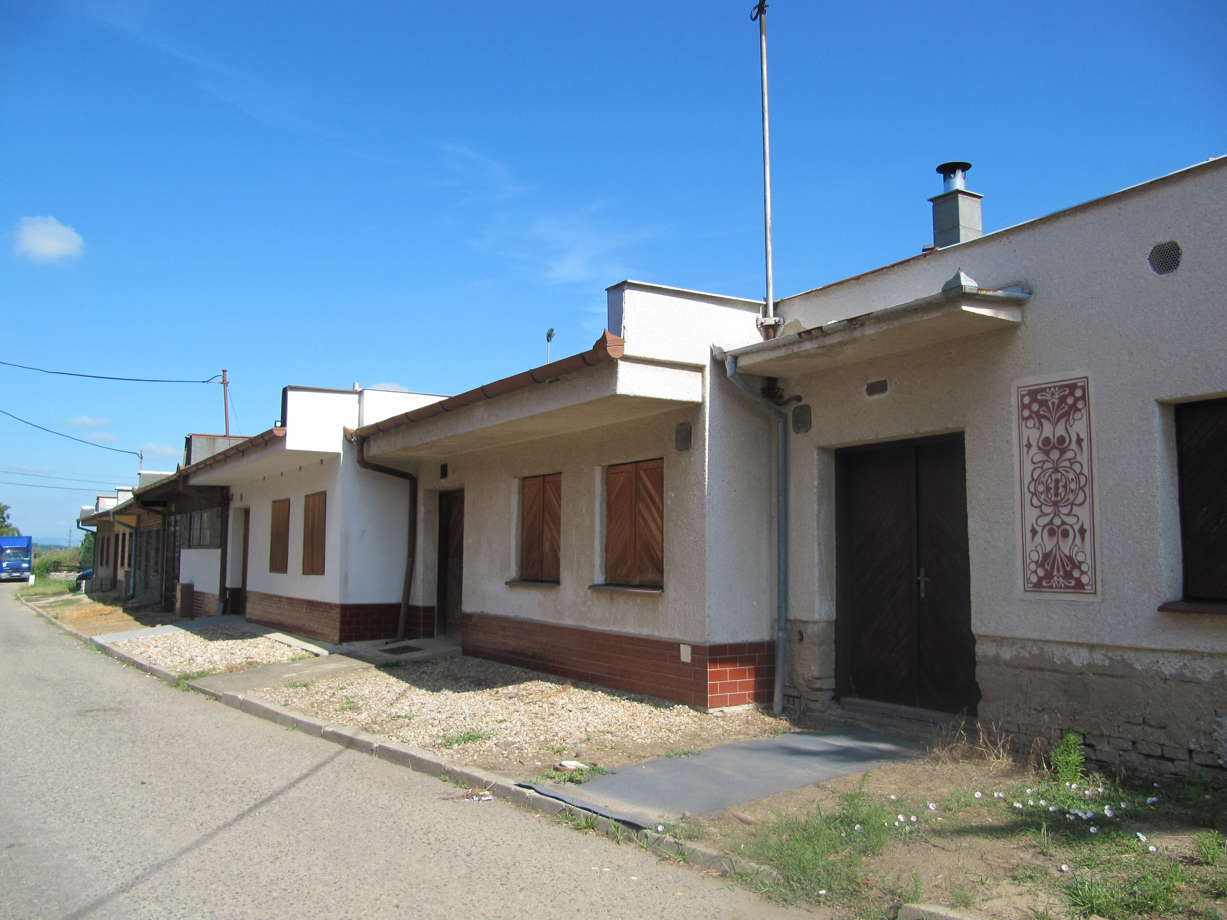 Tvrdonice in Břeclav District, Czech Republic. Wine cellars. This photograph was taken within the scope of the third year of the 'Czech Municipalities Photographs' grant.